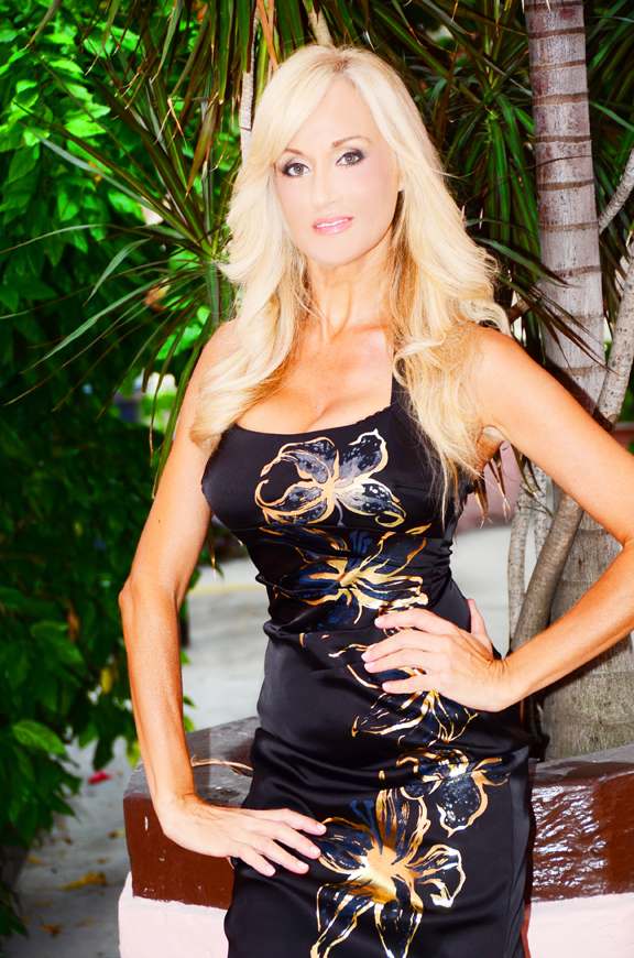 Fiorella Terenzi Public